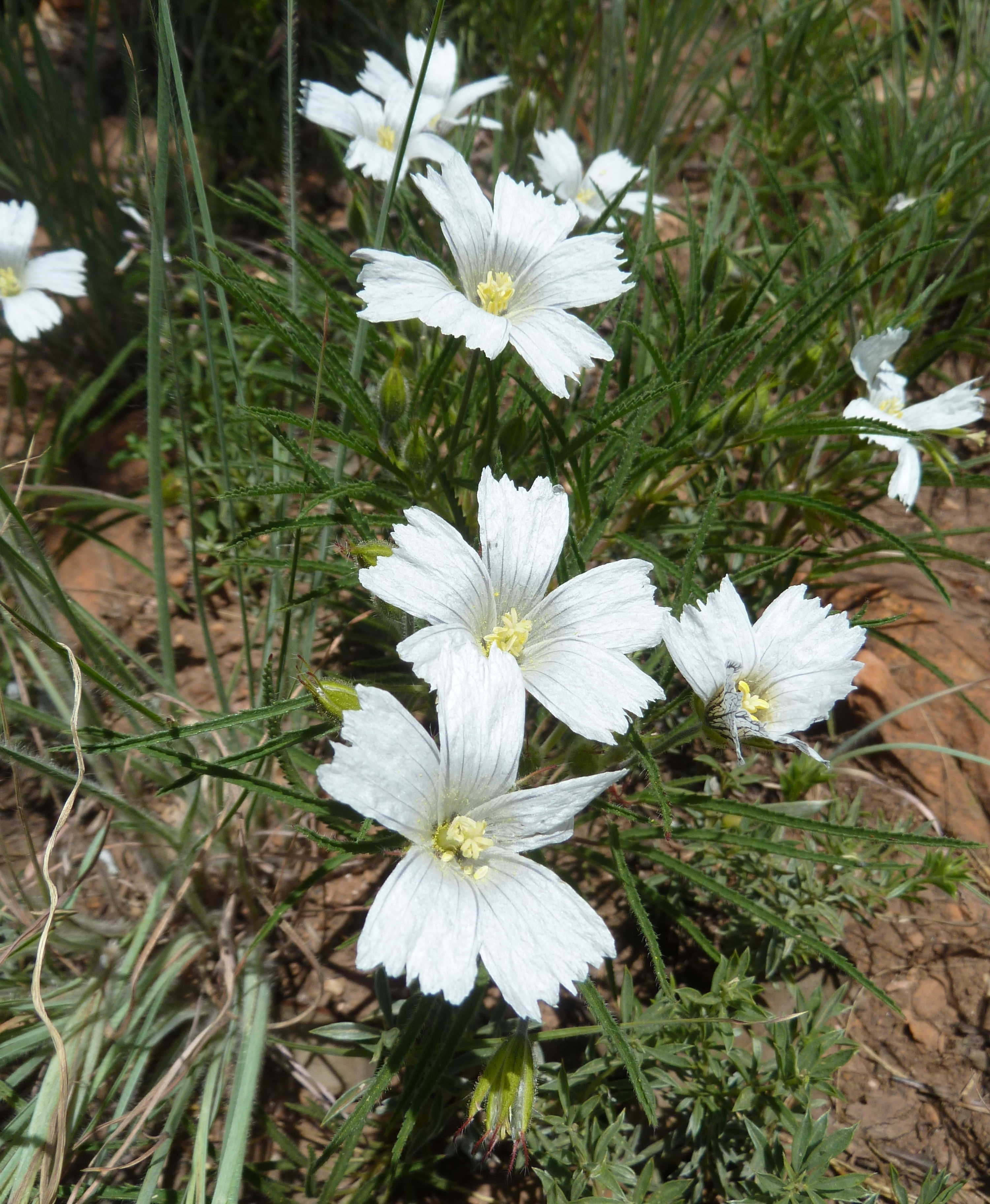 Monsonia attenuata in Walter Sisulu National Botanical Garden